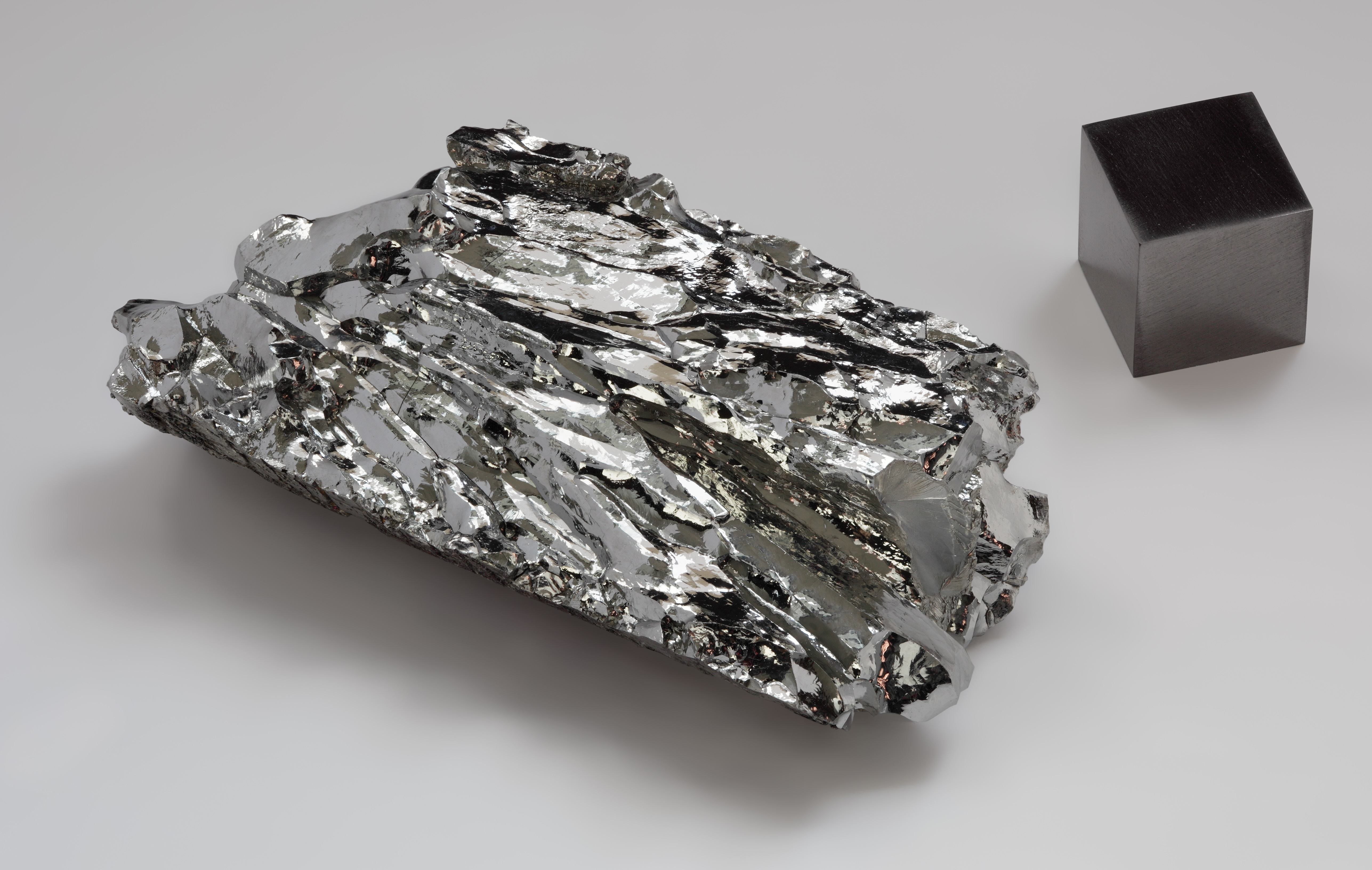 Molybdenum, ebeam remelted macro crystalline fragment. Purity 99.99 % (= "4N"), as well as a high purity single crystalline (99.999 % = 5N) 1 cm3 molybdenum cube for comparison.